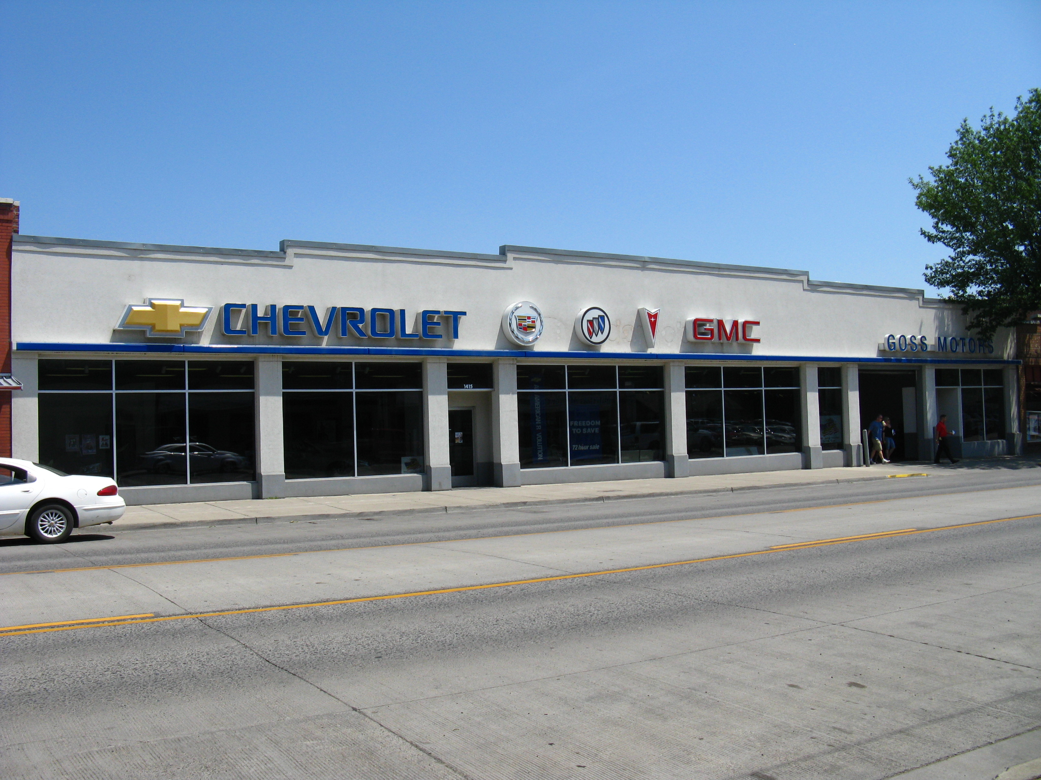 The historic Ledbetter Garage located on the 4000 block of Adams Avenue in downtown La Grande, Oregon. The building now houses the showroom for Goss Motors. This building is located within the La Grande Commercial Historic District, on the National Register of Historic Places